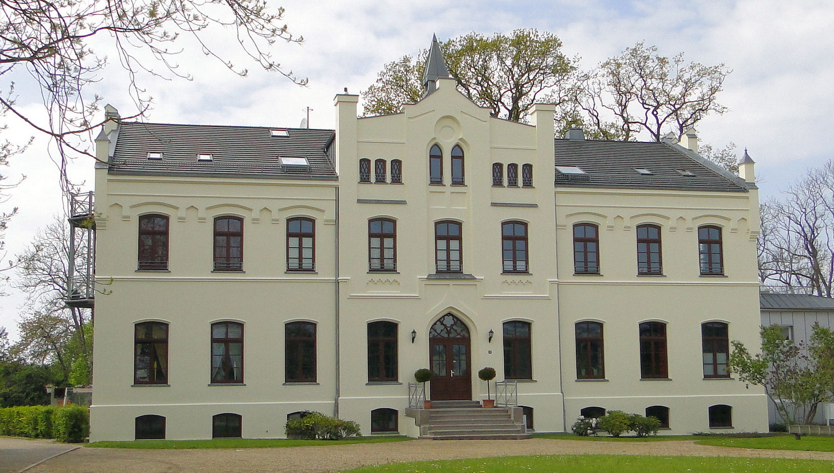 Manor house in Kägsdorf, disctrict Bad Doberan, Mecklenburg-Vorpommern, Germany